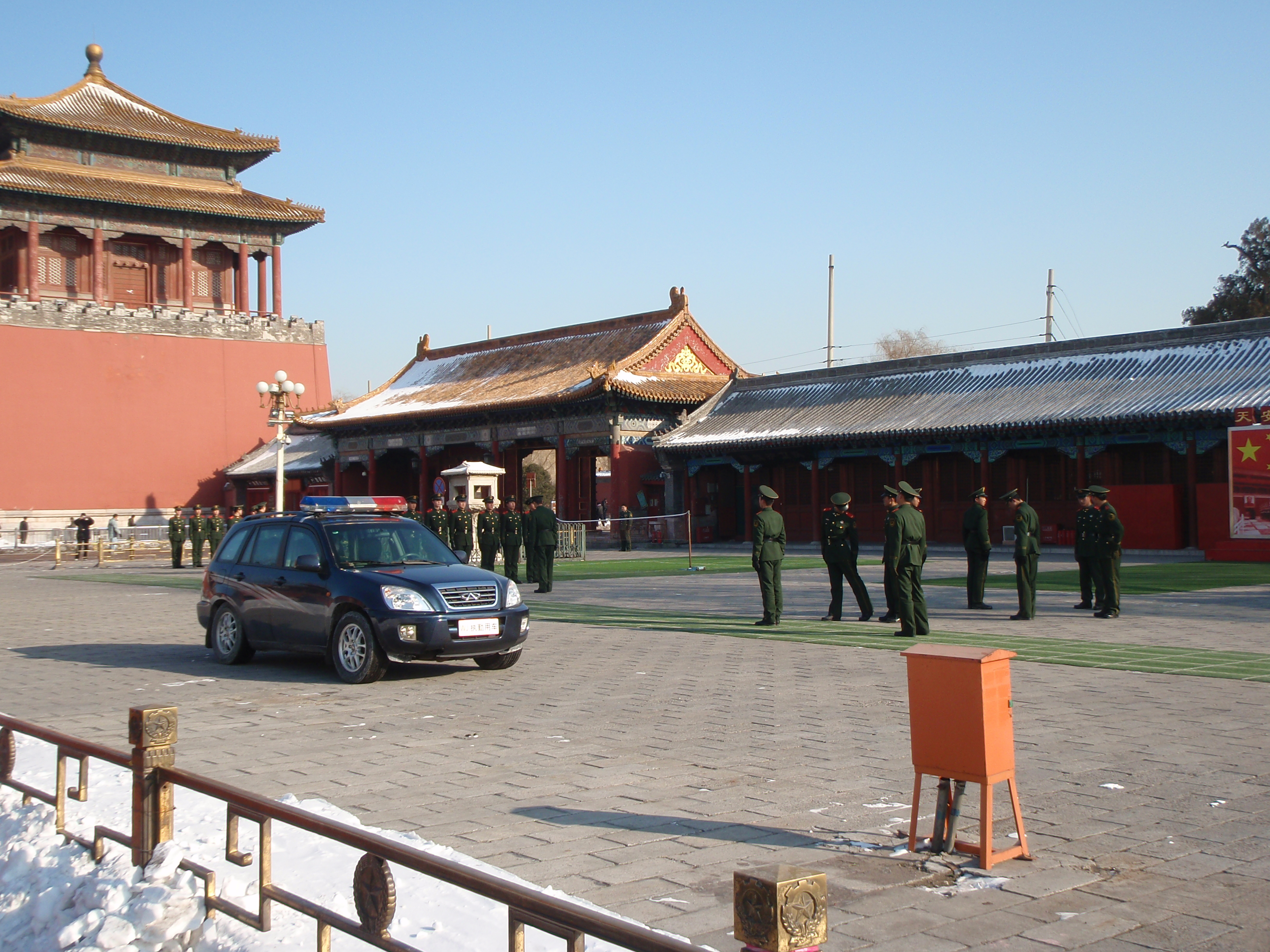 Beijing - Forbidden City(view Northeast) - Meridian Gate, east-palace side entrance (Duanman gate)